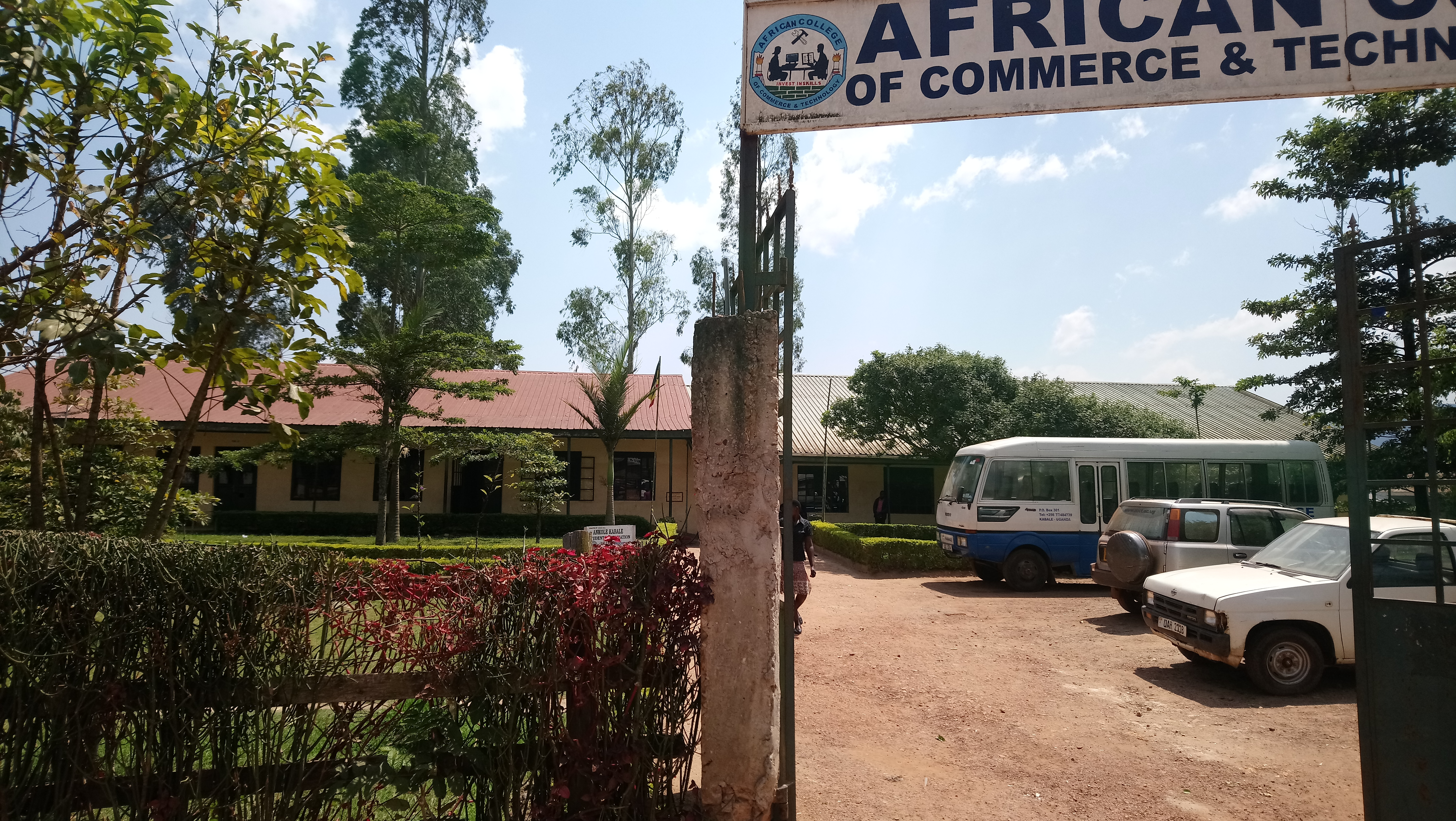 The main entrance to ACCT.